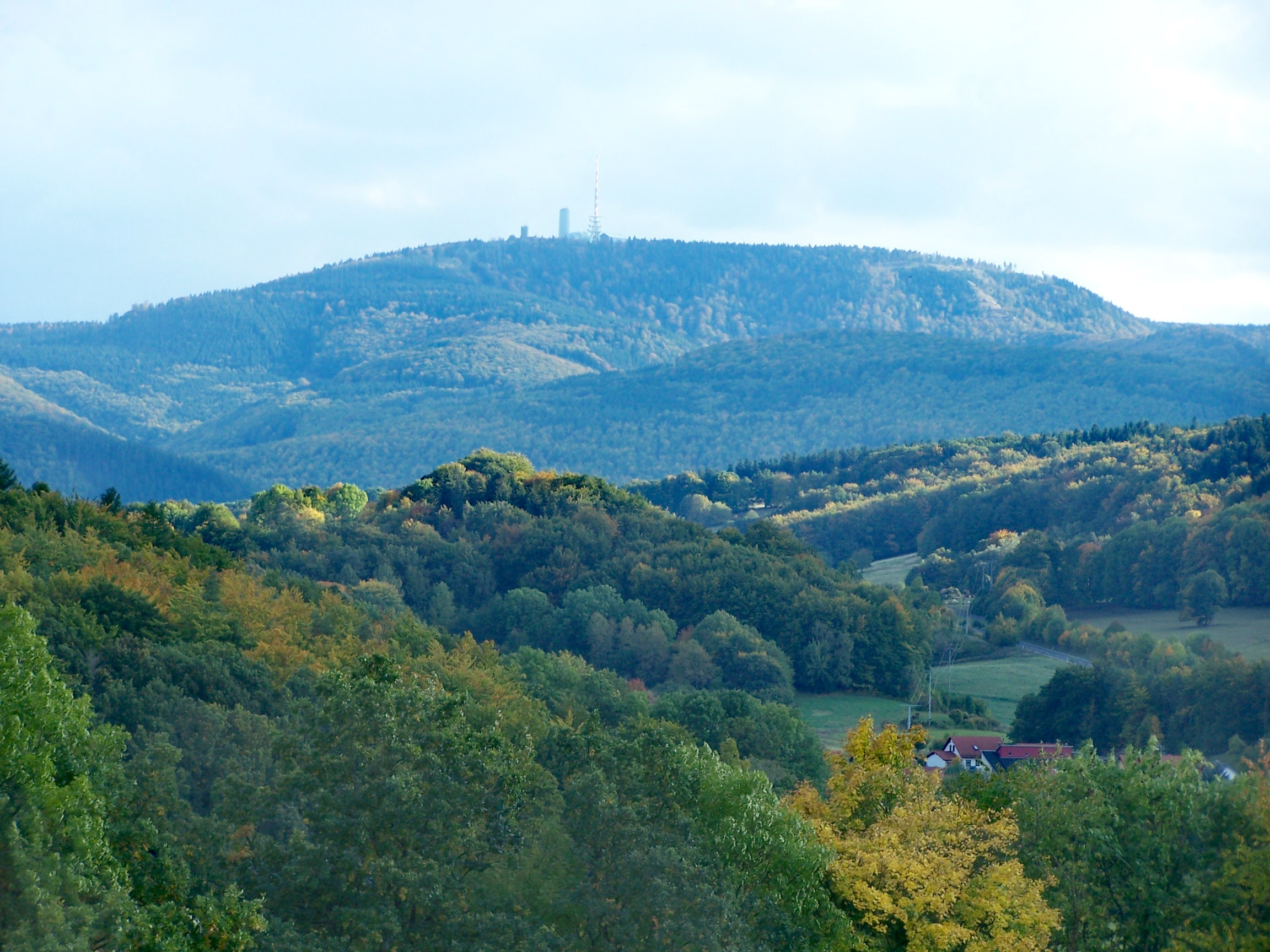 The Inselsberg seen from the panorama viewpoint at Kreuzweg.